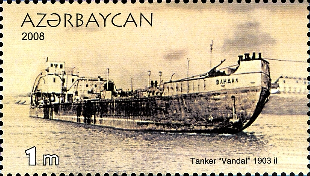 150th Anniversary of the Caspian Shipping Company - "Vandal"